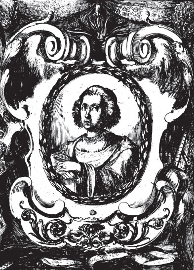 Portrait in Costa's 1638 Lettere amorose